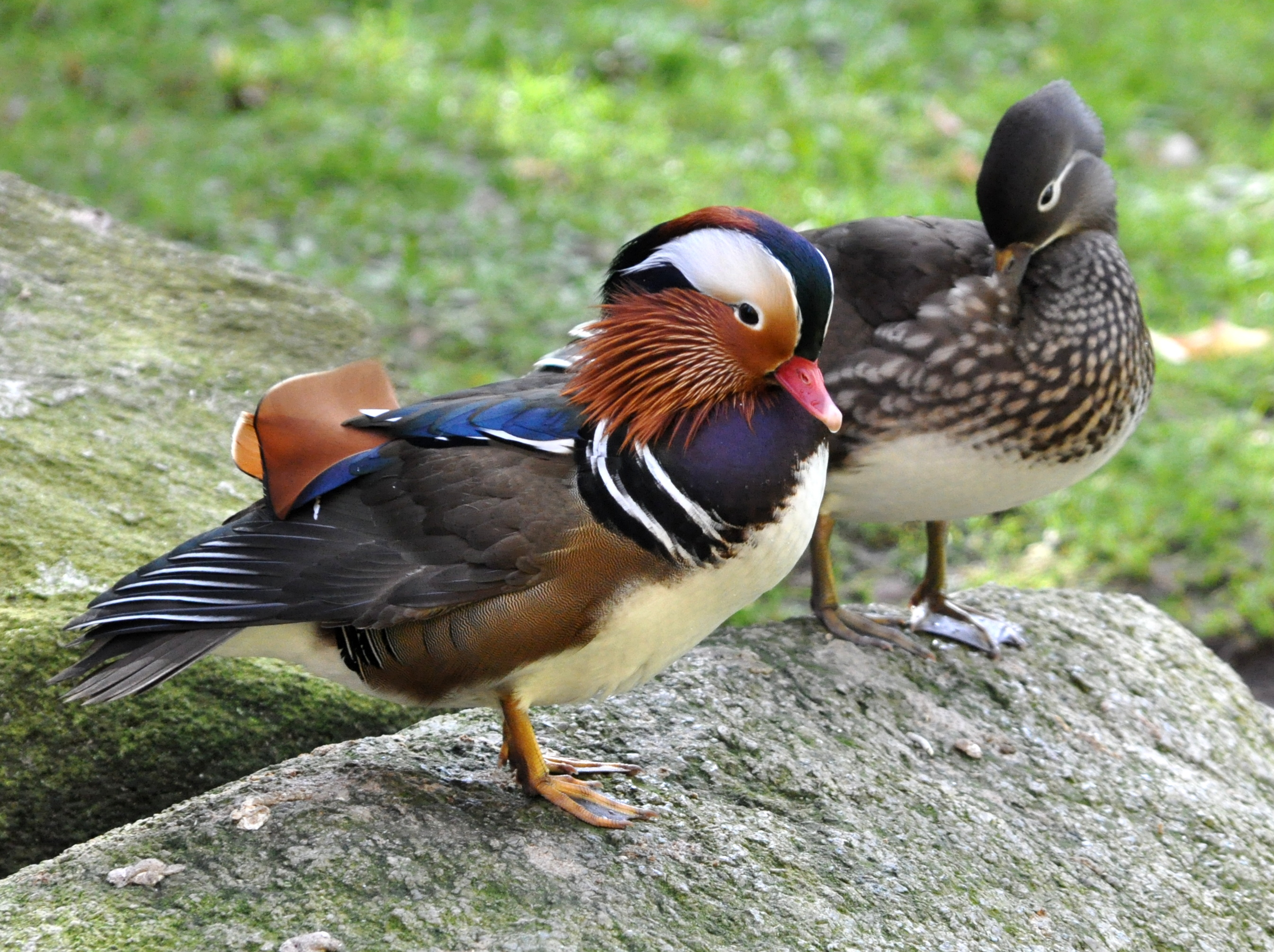 Mandarin Ducks (Aix galericulata) in the Walsrode Bird Park, Germany.